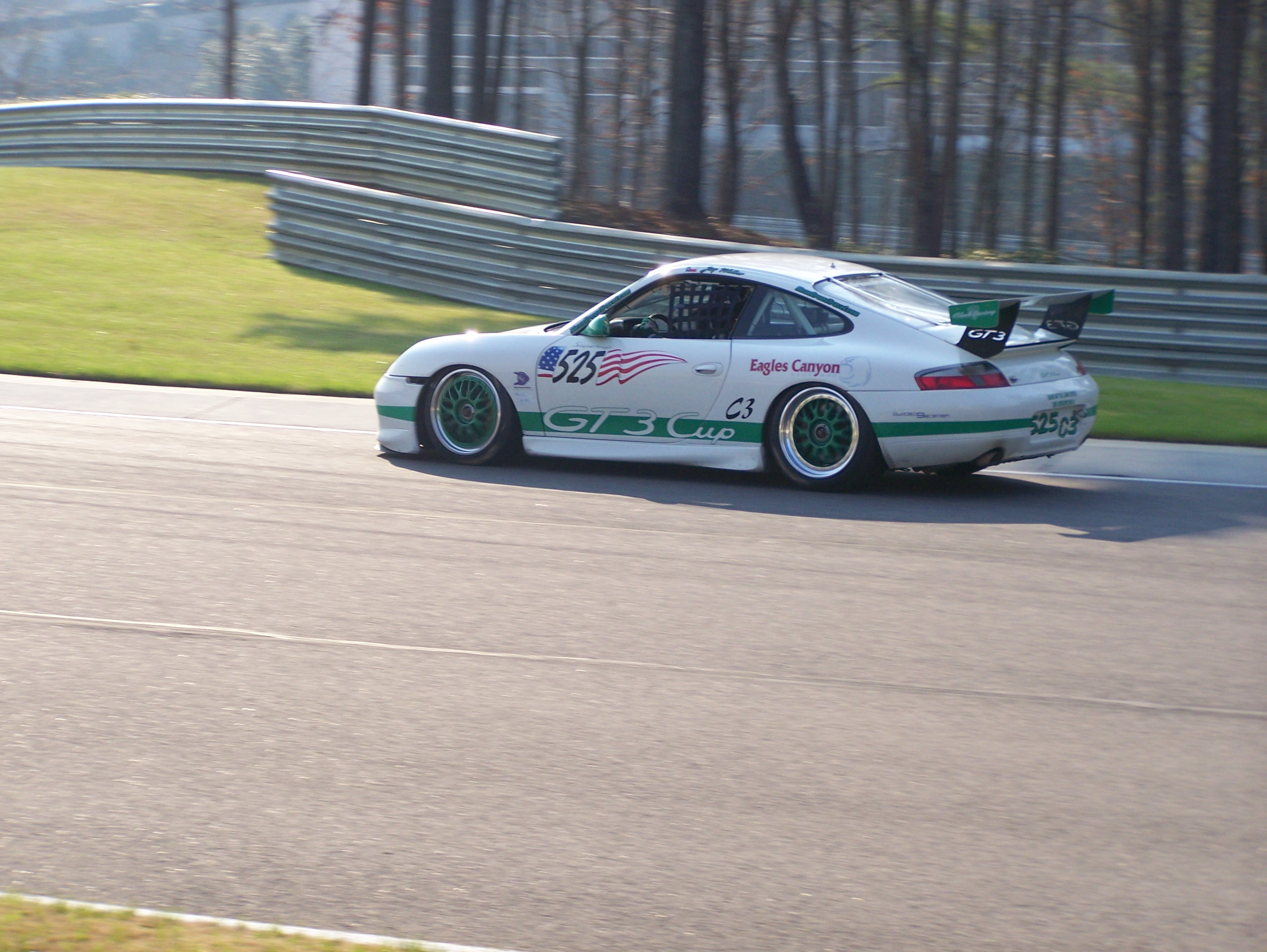 Porsche 996 GT3 Cup #525. Stylized numbers and graphics make this one hard for me to read.